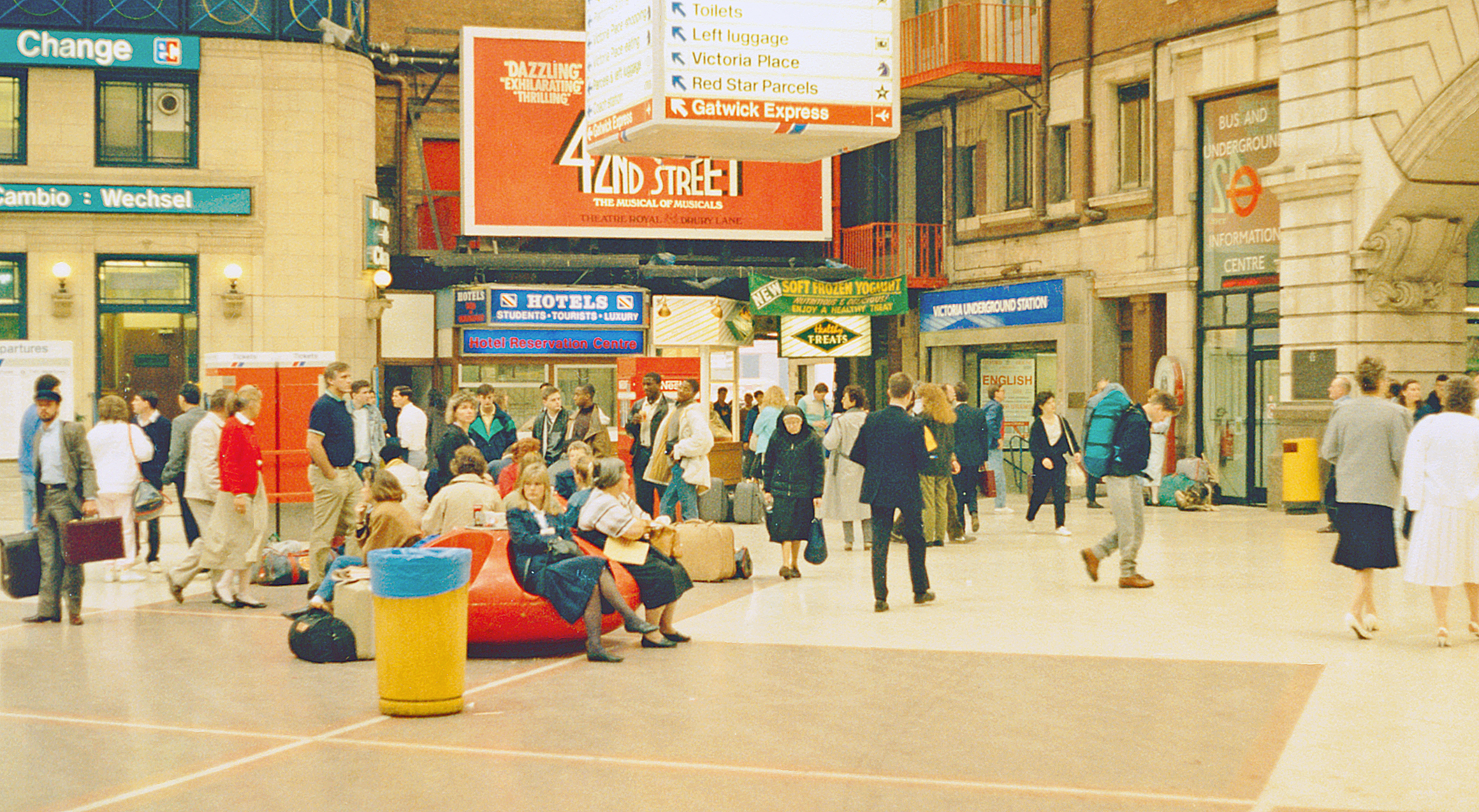 Victoria Station: Eastern Section concourse, towards exit and Central Section, 1988. View NW from barriers of Platforms 1 - 8, towards Central Section concourse (Platforms 9 - 19). Note the various signs relating to international travel.